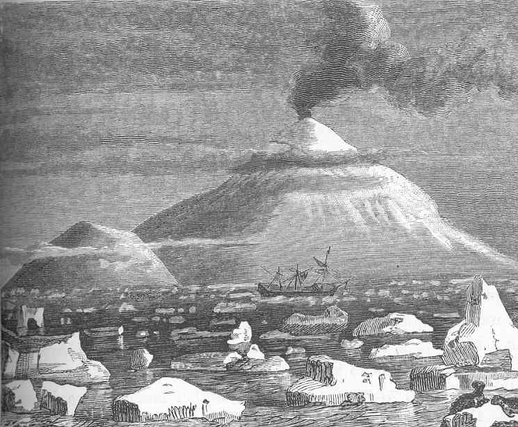 Mount Erebus and Terror Subject: Erebus, Mount (Antarctica), Volcanoes--Antarctica Geographic Subject: Antarctica--Mount Erebus Tag: Coasts